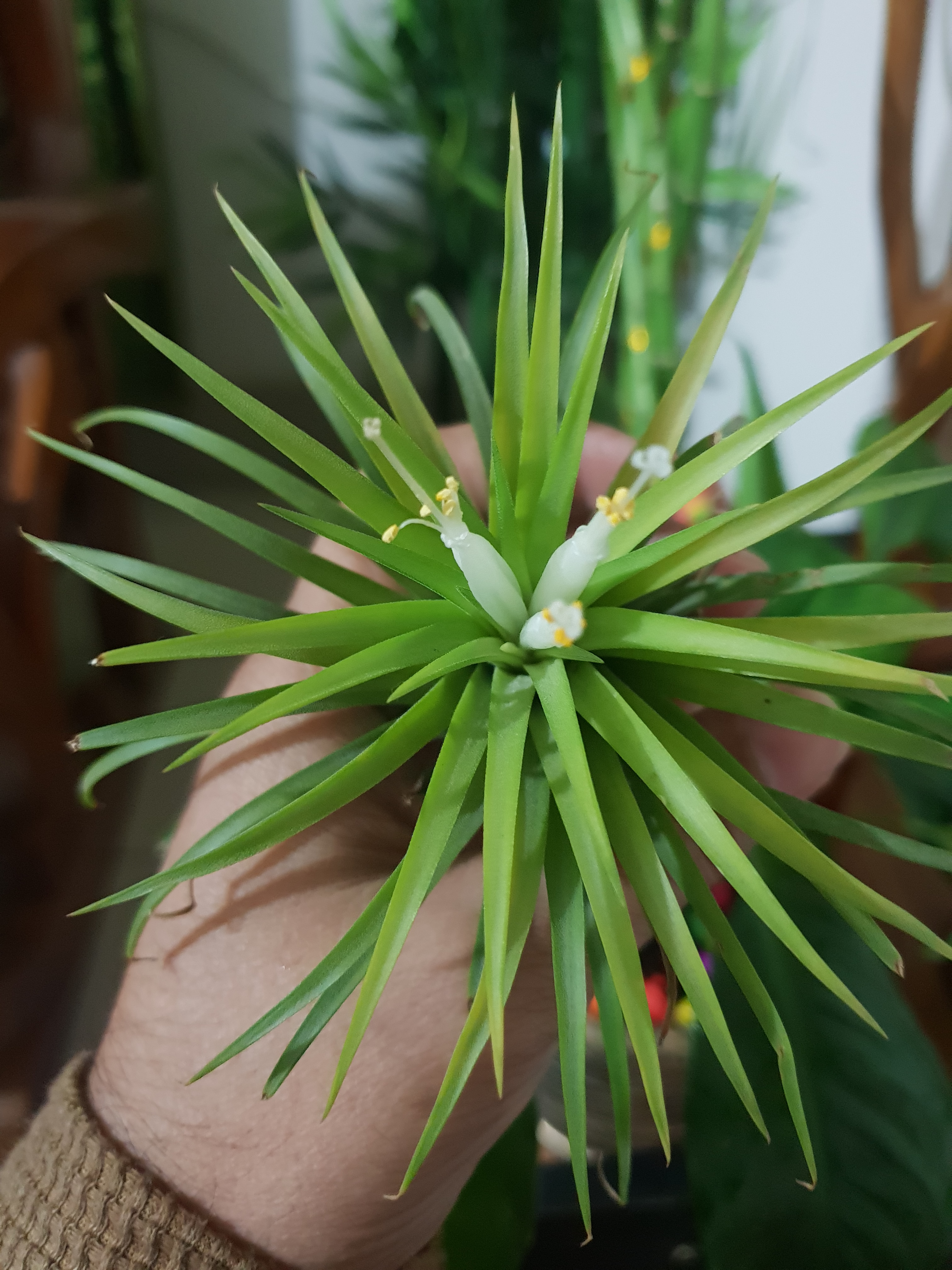 Tillandsia ionantha "Druid"-Guatemalan Form. The "Druid" forms of Ionantha are unique in that instead of blushing red or orange with purple flowers, they blush a creamy white or yellow to pink with white flowers. ... Like all Ionanthas, these are extremely easy to grow and propagate.